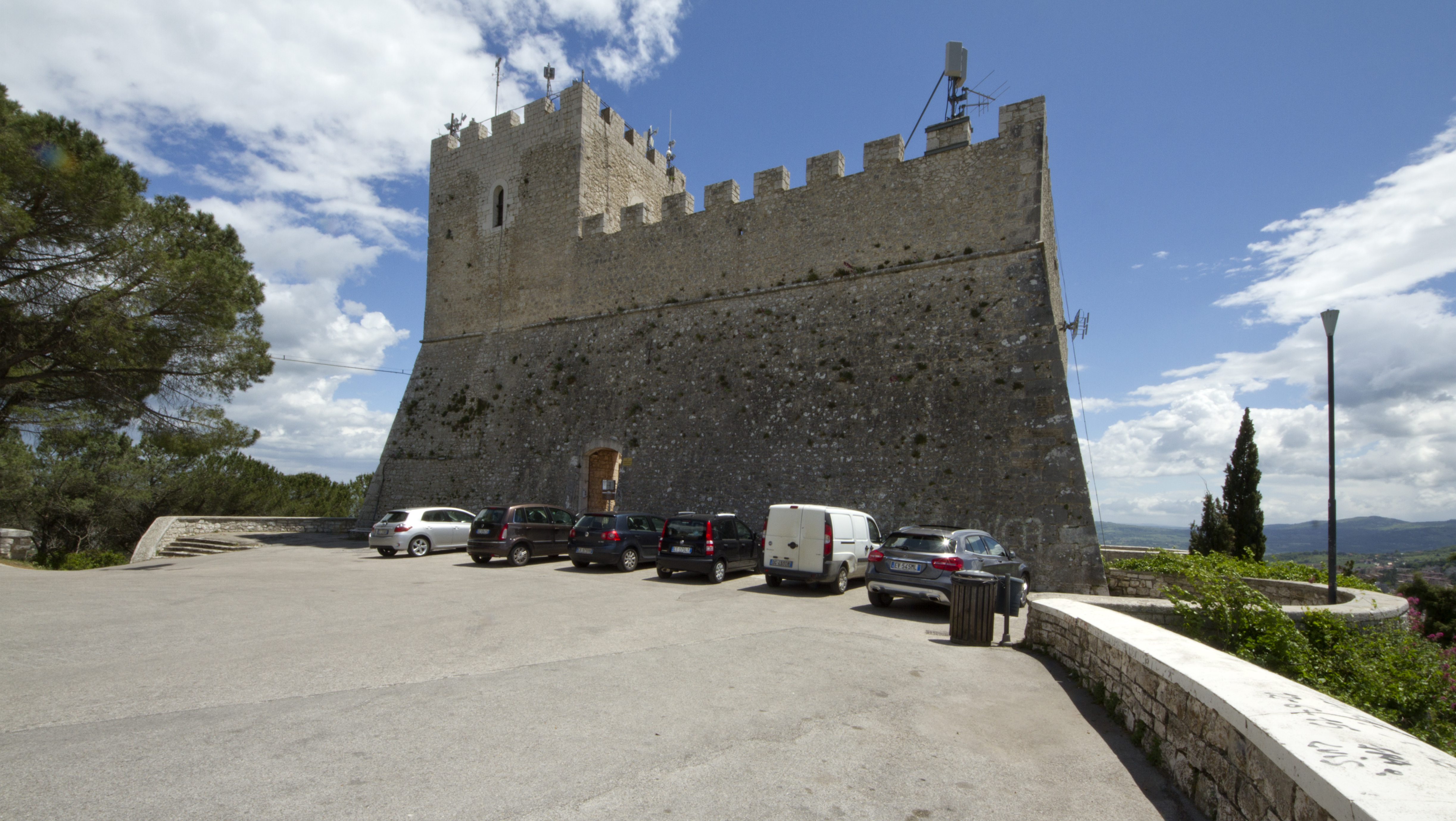 Old Town, 86100 Campobasso, Italy